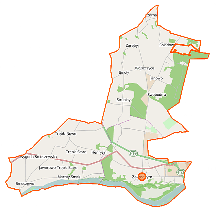 Map of Gmina Zakroczym, Poland This map of Zakroczym (gmina) was created from OpenStreetMap project data, collected by the community. This map may be incomplete, and may contain errors. Don't rely solely on it for navigation. Border coordinates52.535420.4768←↕→20.682452.4116